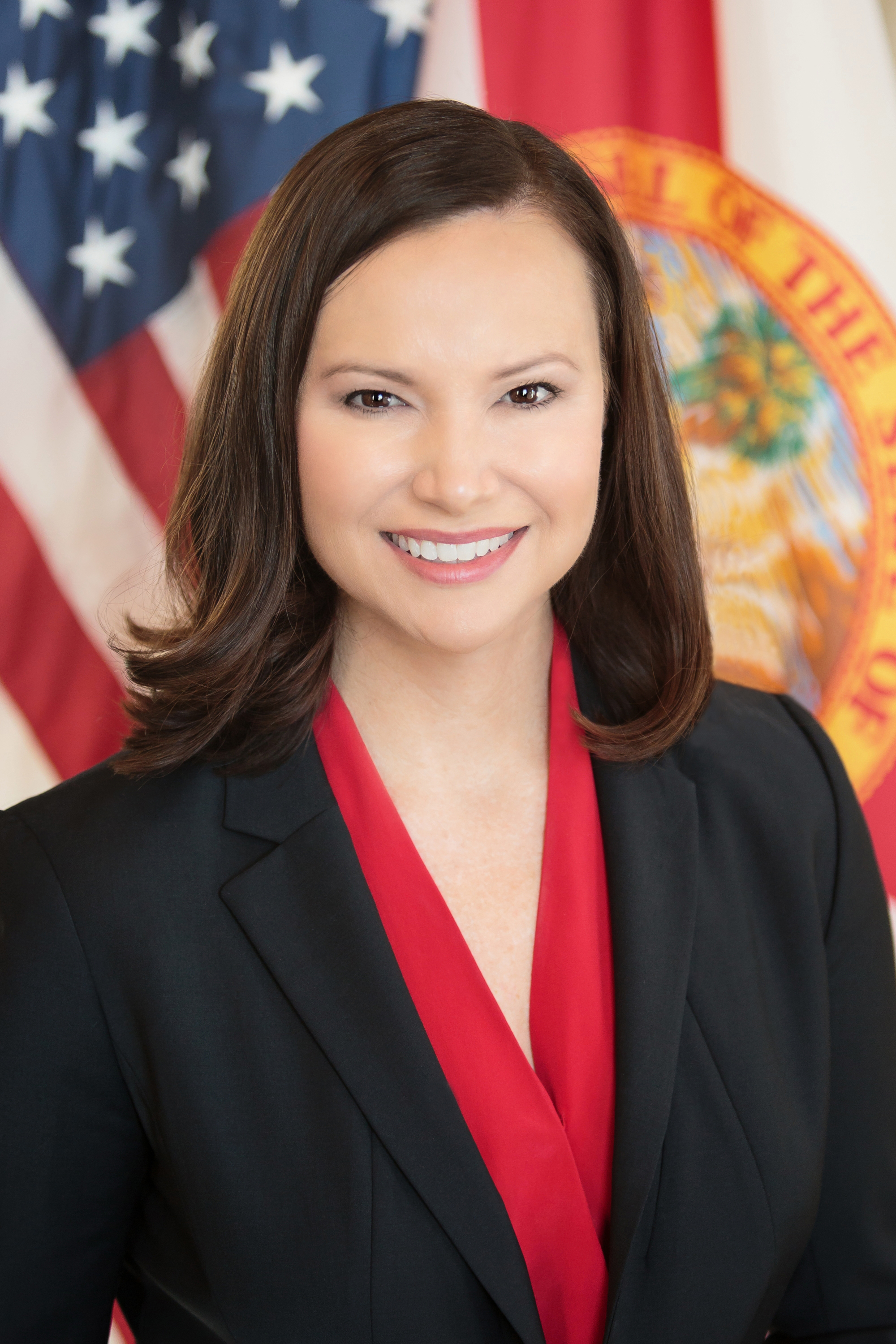 Official photo of Attorney General of Florida Ashley Moody